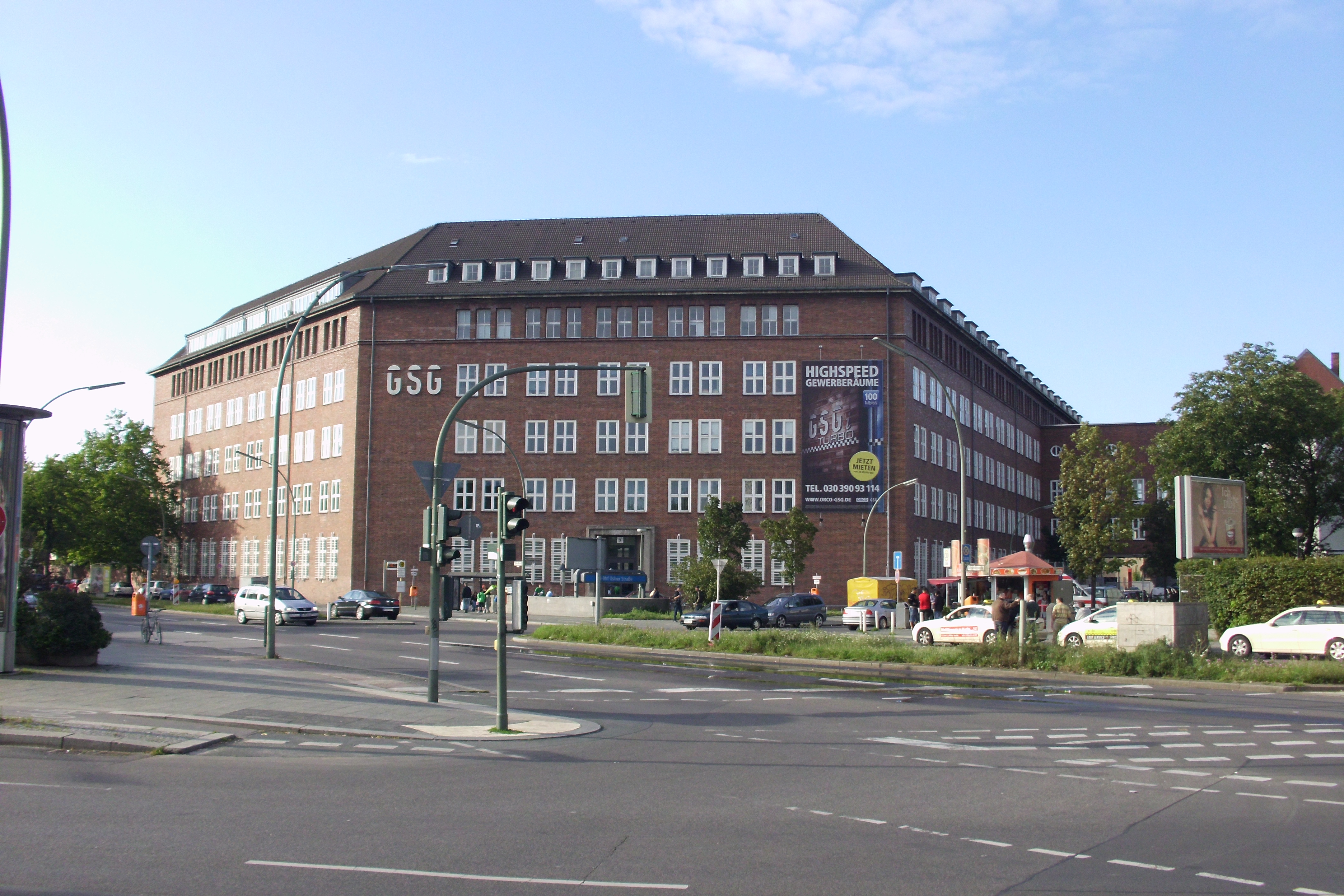 former "Telefunken Gerätewerk", Schwedenstraße (Swedenstreet) in Berlin-Wedding